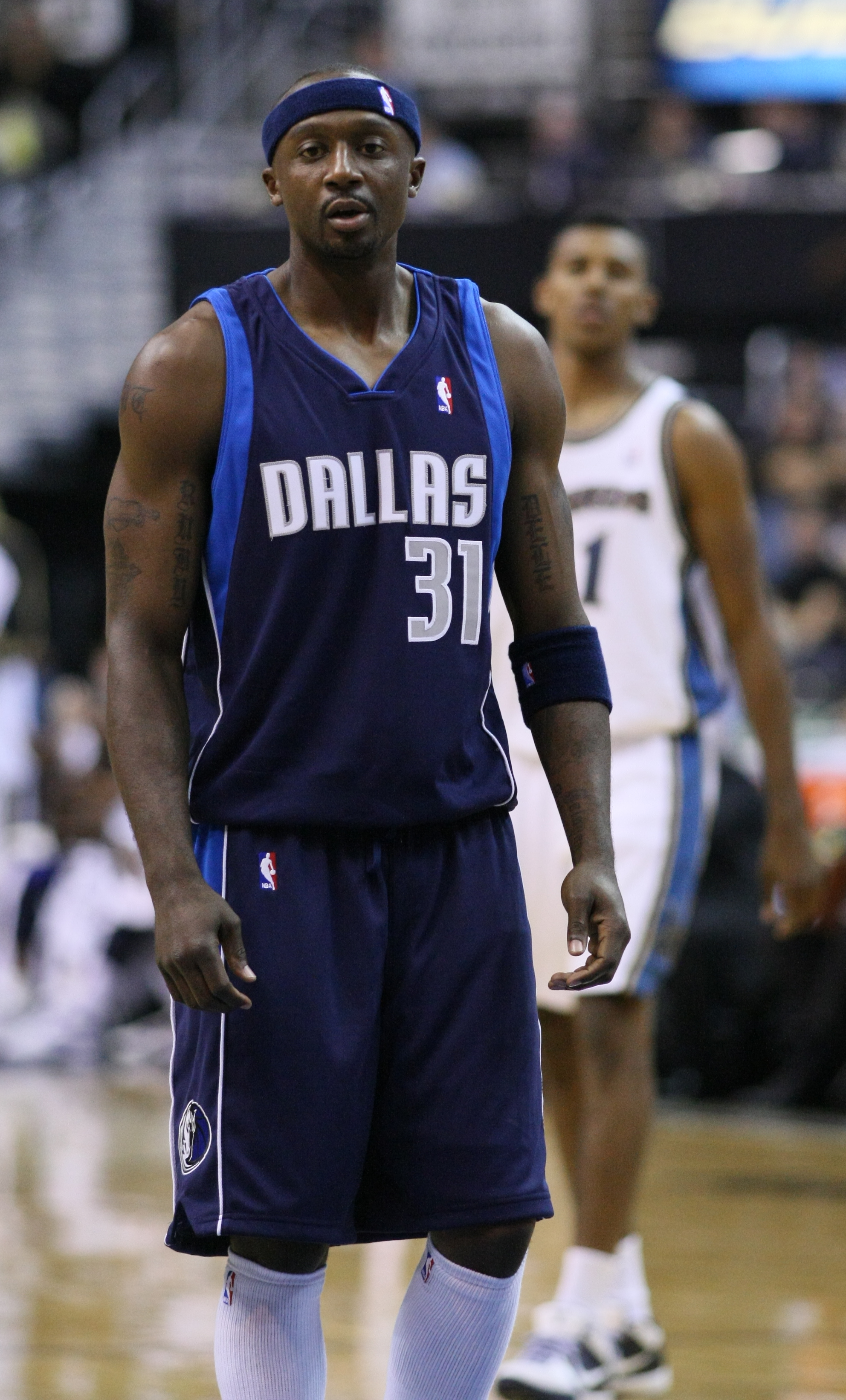 Jason Terry with the Dallas Mavericks, October 2009.